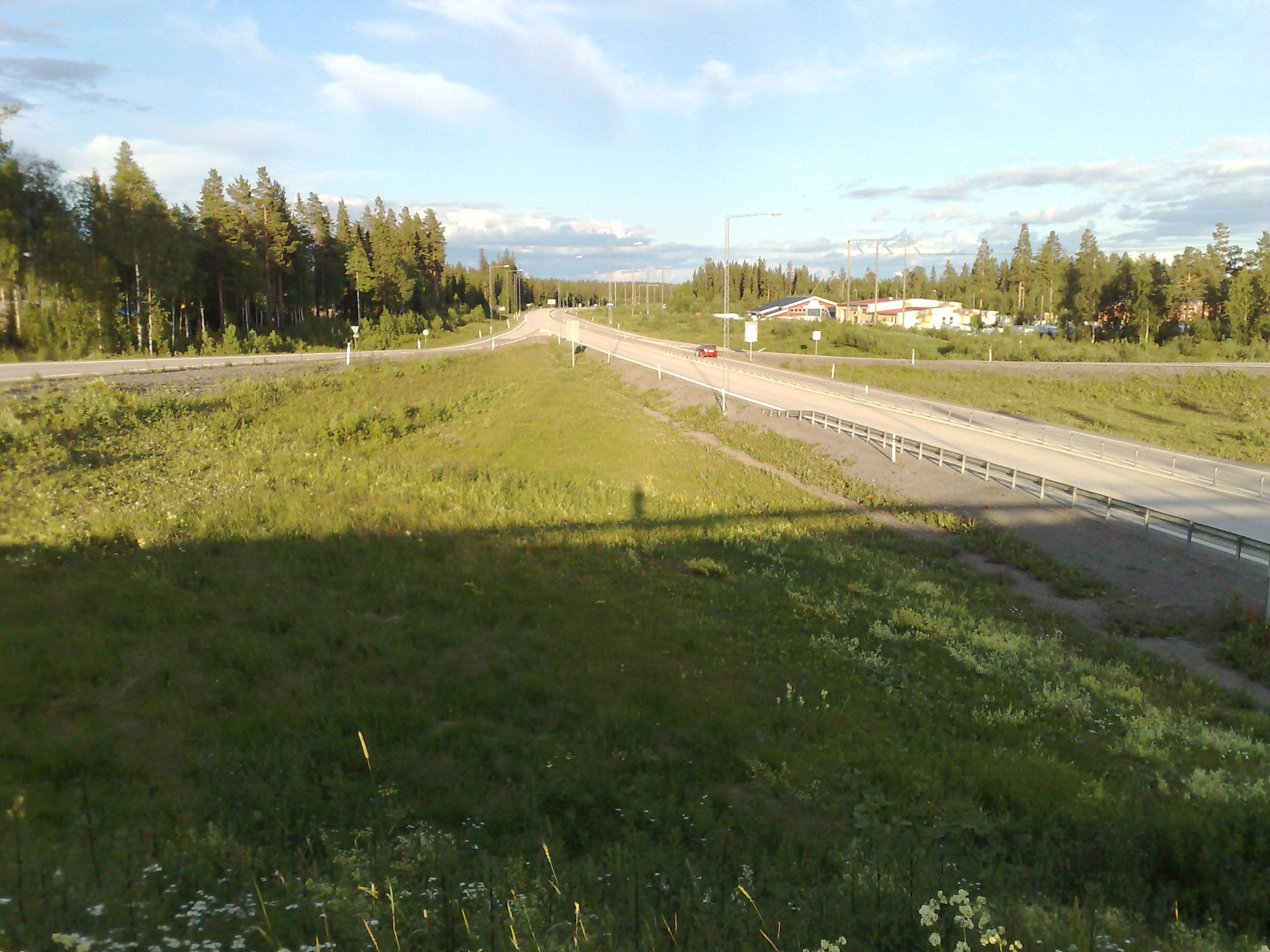 Torvalla junction on the E14 near Östersund, Sweden